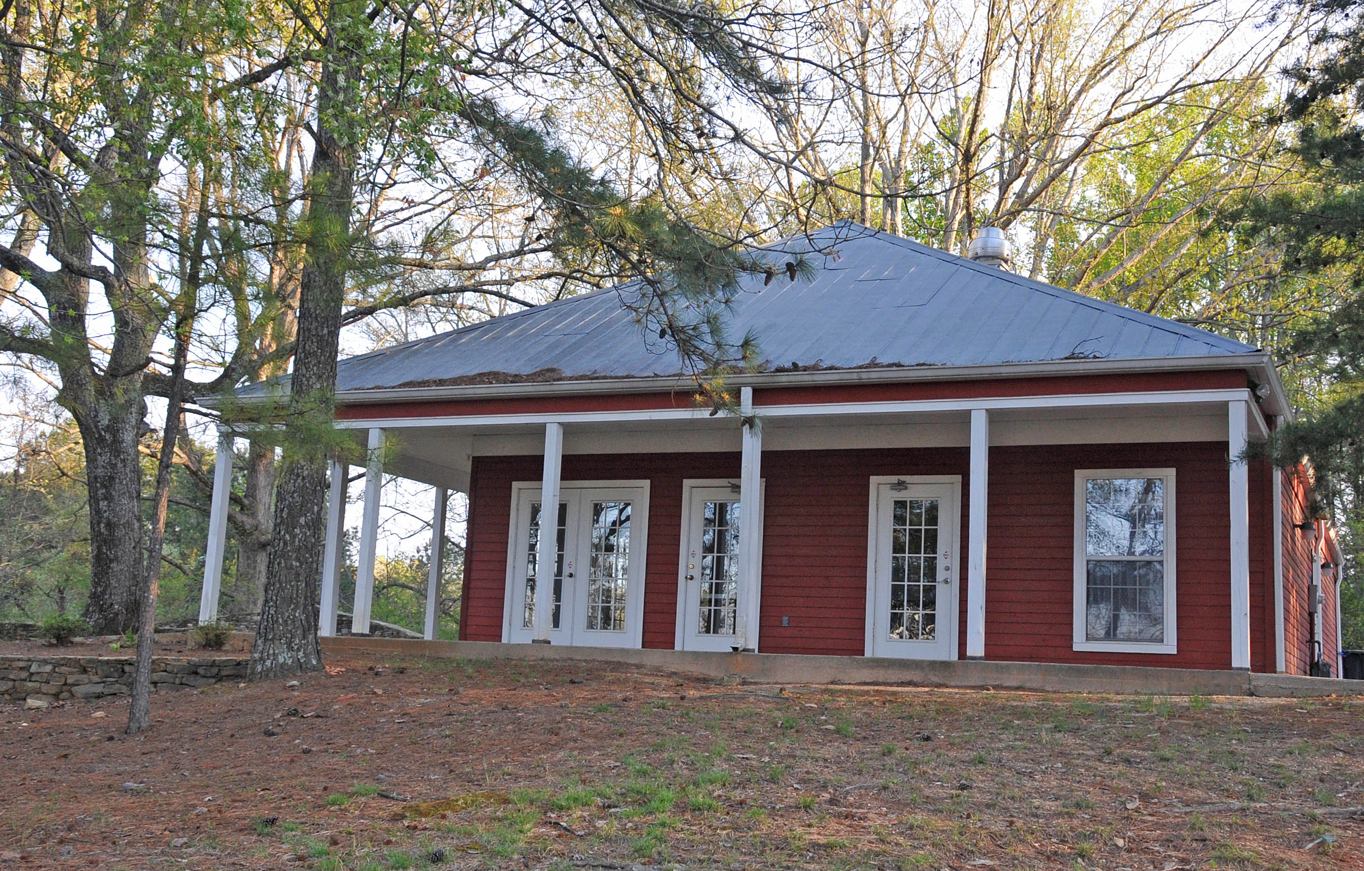 This was a school established by Beulah Rucker for African Americans in the early 20th century.the address given in the NR is 2110 Athens Hwy but there is nothing but woods at that site. However directly across the road at 2105 is the Rucker house which is now a museum and there are Georgia historical signs directing one to the spot.